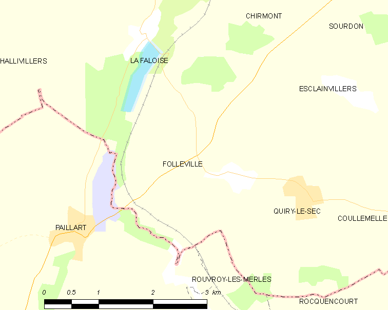 Map of French municipality Folleville